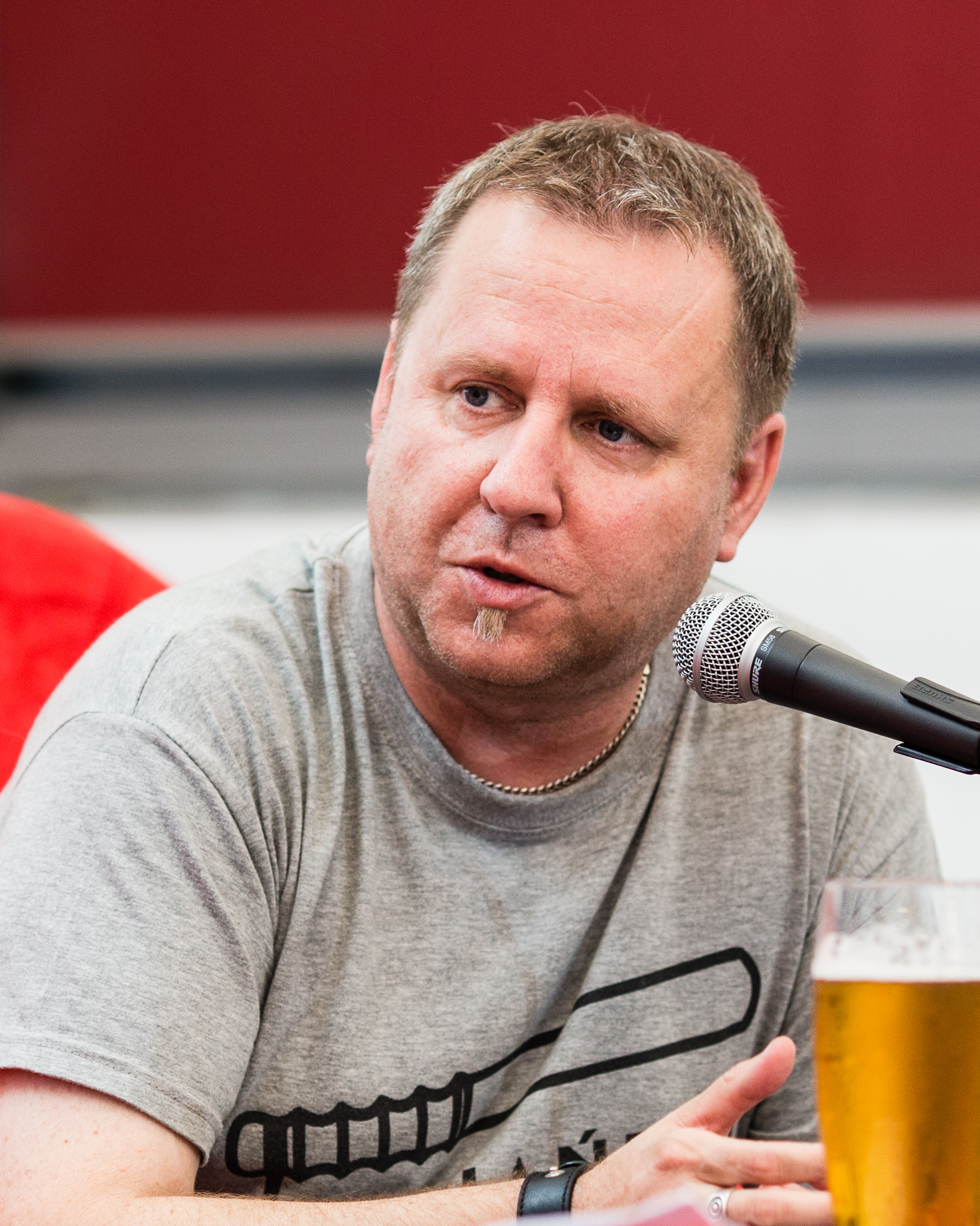 Vladimír Balla on Authors’ Reading Month 2017, Wrocław, Poland